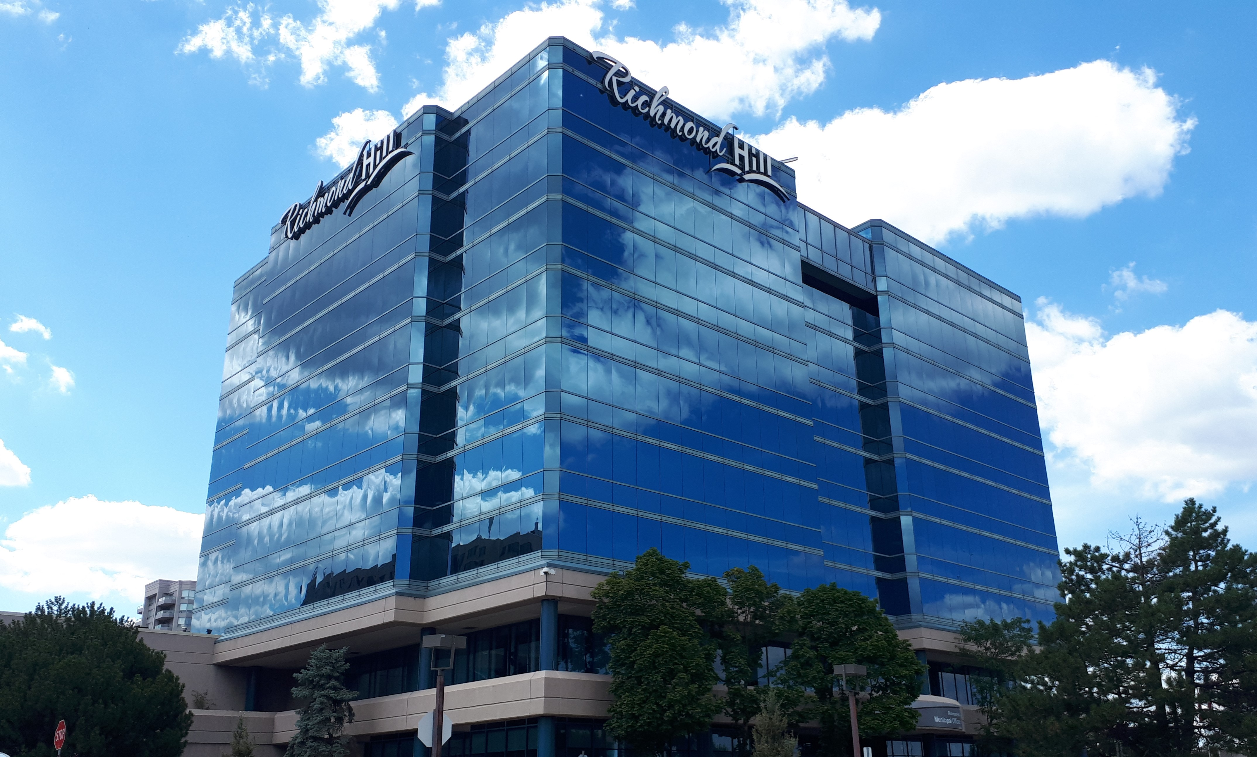 Richmond Hill Municipal Offices- Richmond Hill-Ontario-Canada